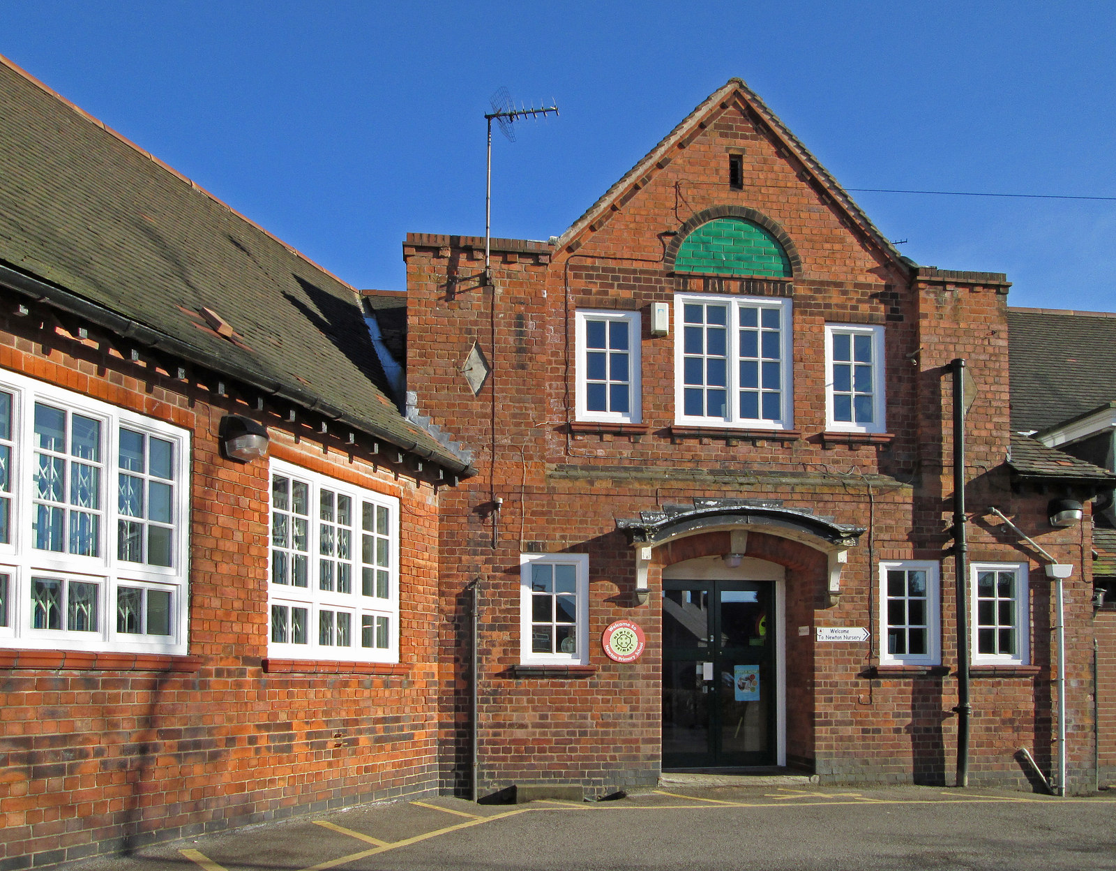 Newton - Primary School - northern entrance